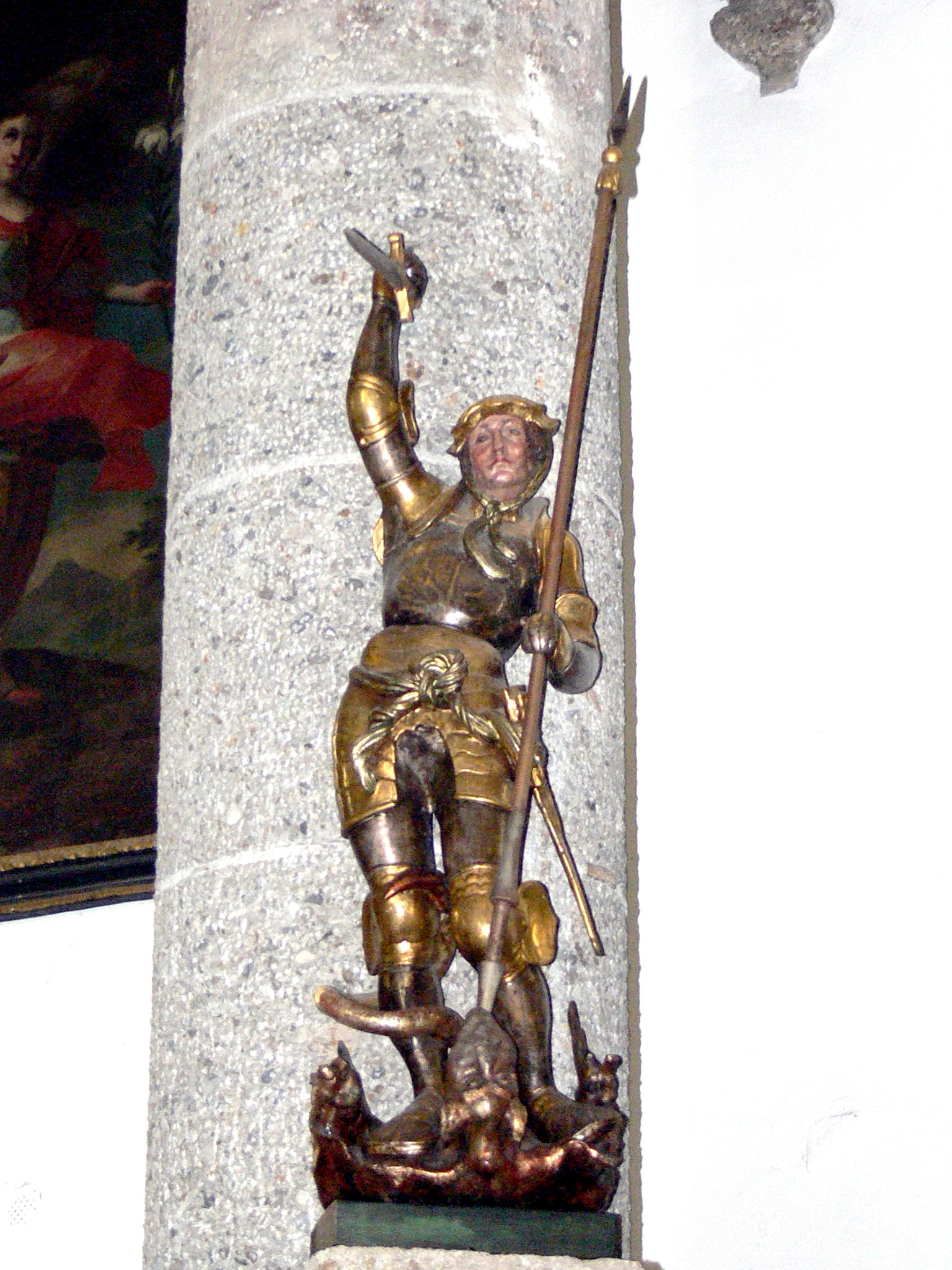 Saint Blaise parish church in Abtenau ( Salzburg ). Statue of Saint George ( 1518 ) by Andreas Lackner - remnant of the gothic high altar.